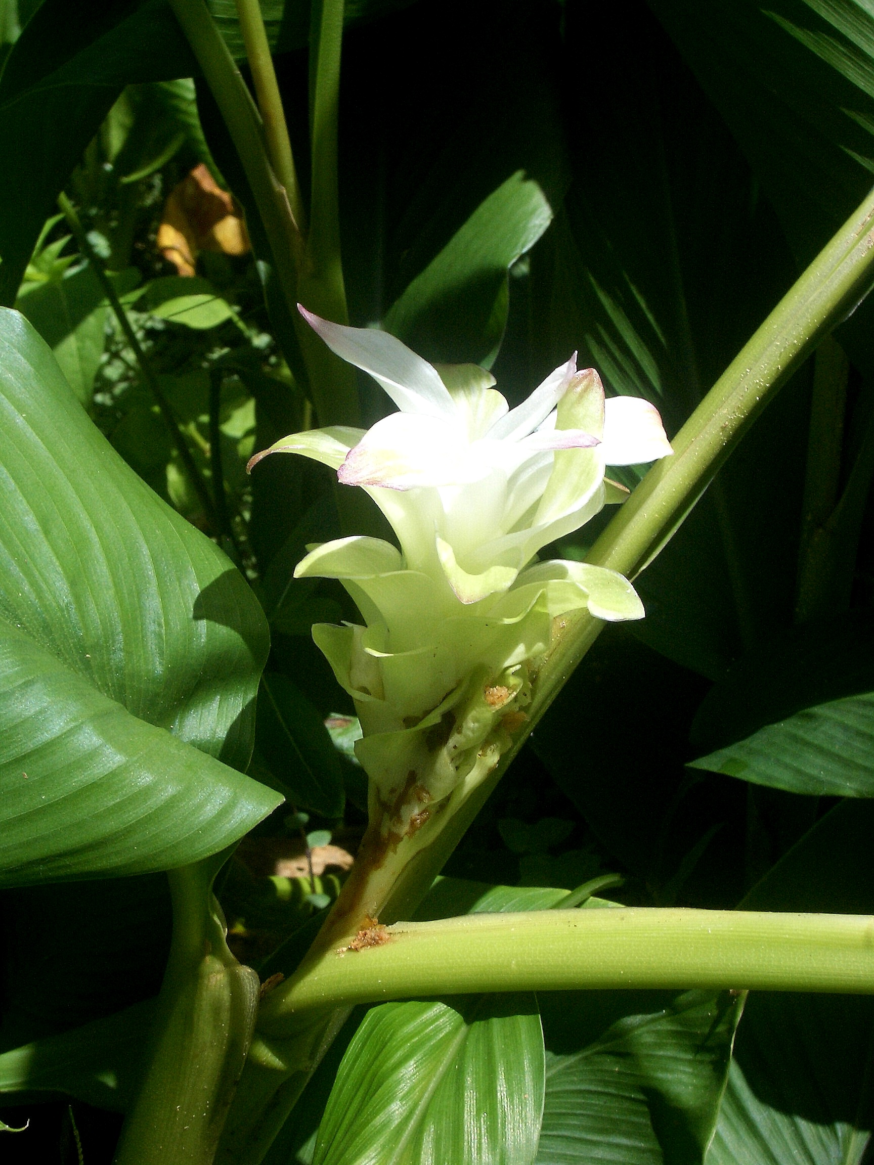 I took this photo of a white turmeric growing wild in my garden today